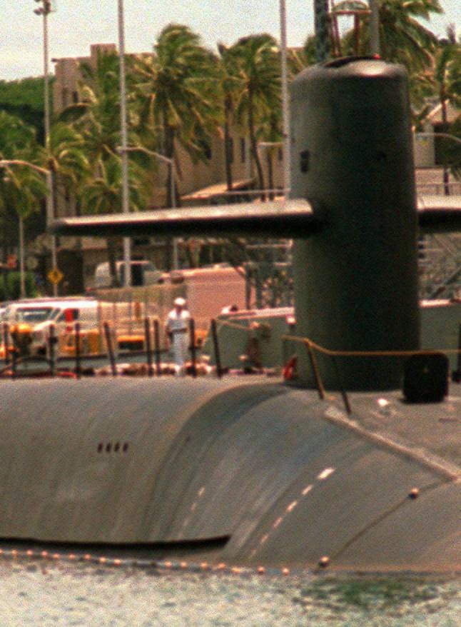 USS GEORGIA (SSBN-729) was a typical Ohio-class Trident submarine. The four small holes just abaft the sail are for CSA Mk 1-2 countermeasures launcher system